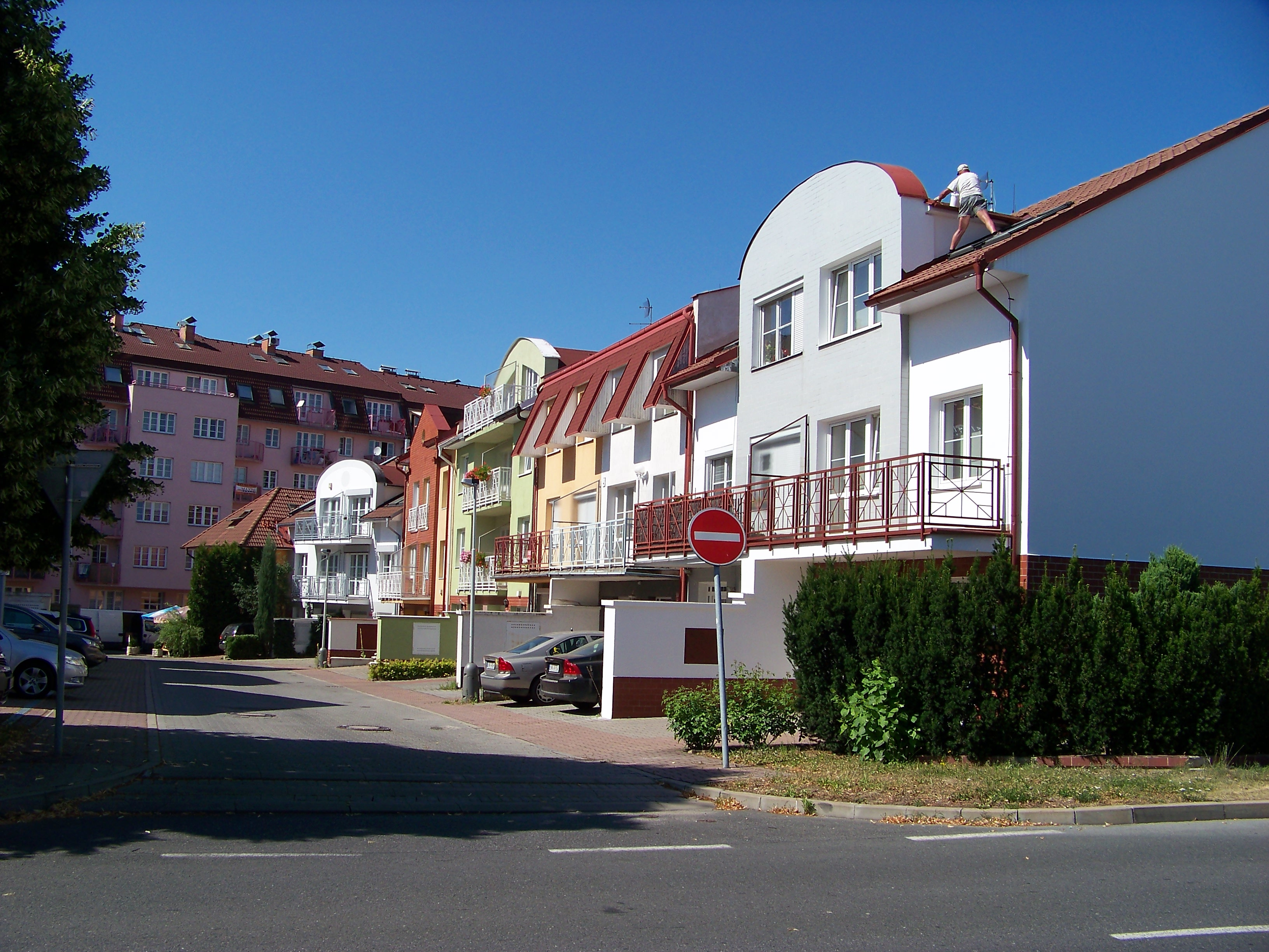 Prague-Kyje. Stulíková street.